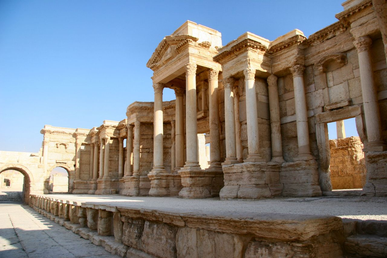 Tadmor, Syria: the scene of the theater of Palmyra.